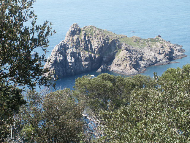 Ilot de la Gabiniere